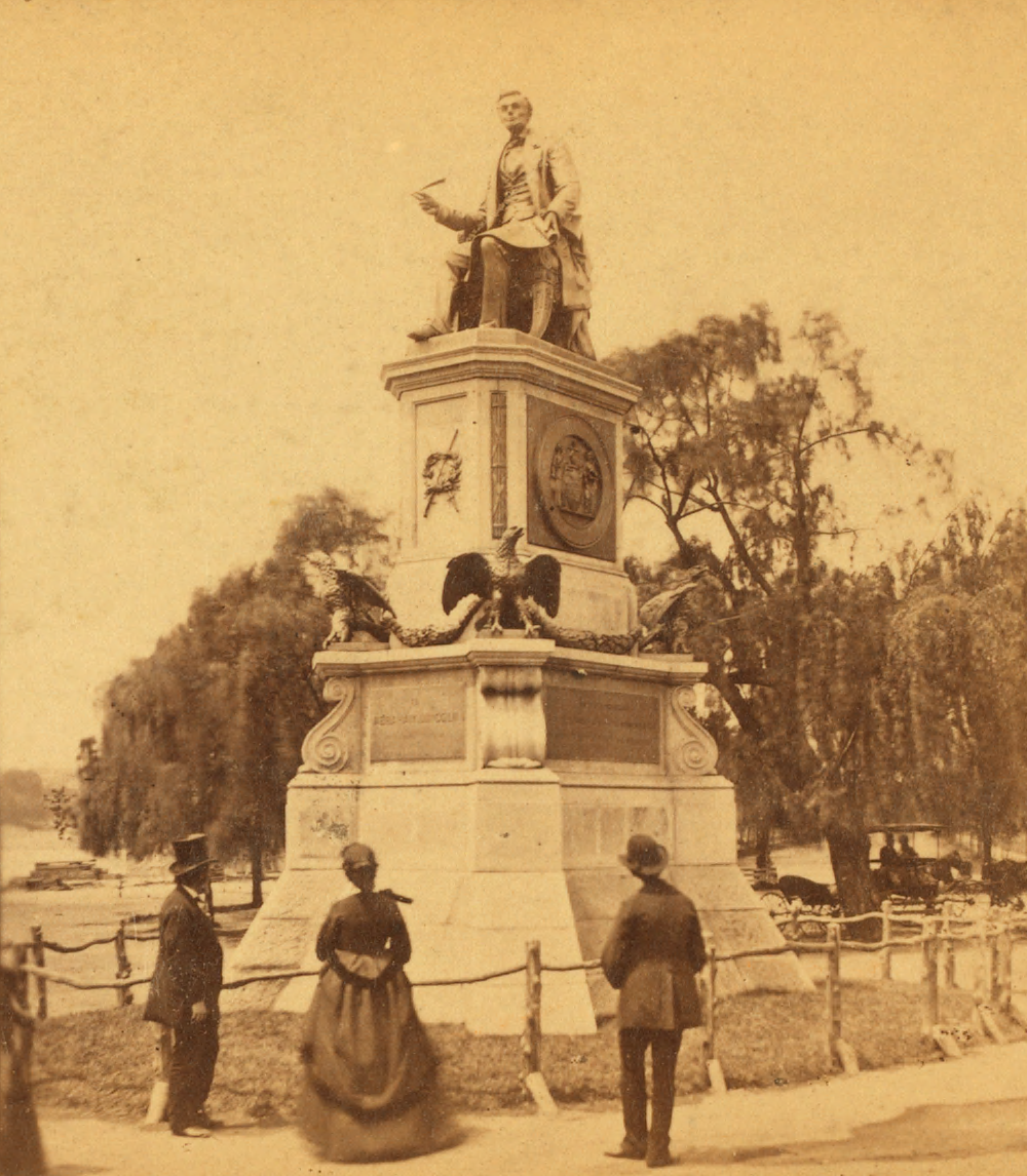 Lincoln Monument, Fairmount Park, Philadelphia.